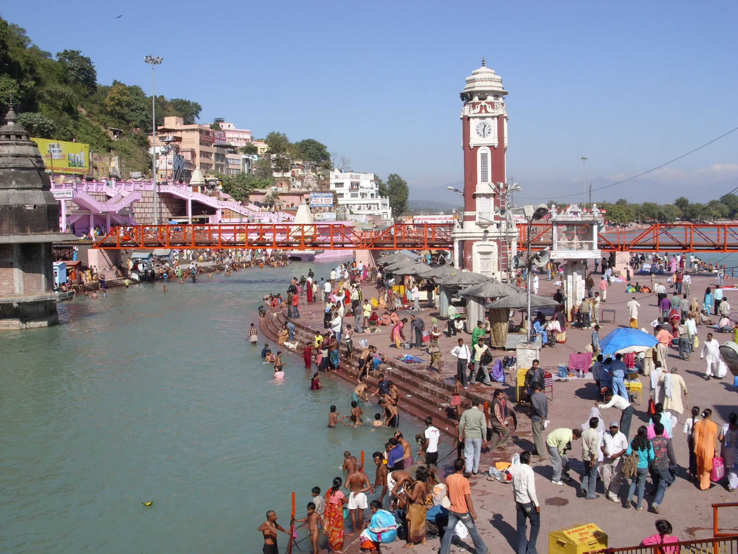 Hindu pilgrims in Haridwar, Uttaranchal, India. Hornjoserbsce: Hinduistiscy putnikojo w Haridwarju, Utarančal, Indiska.